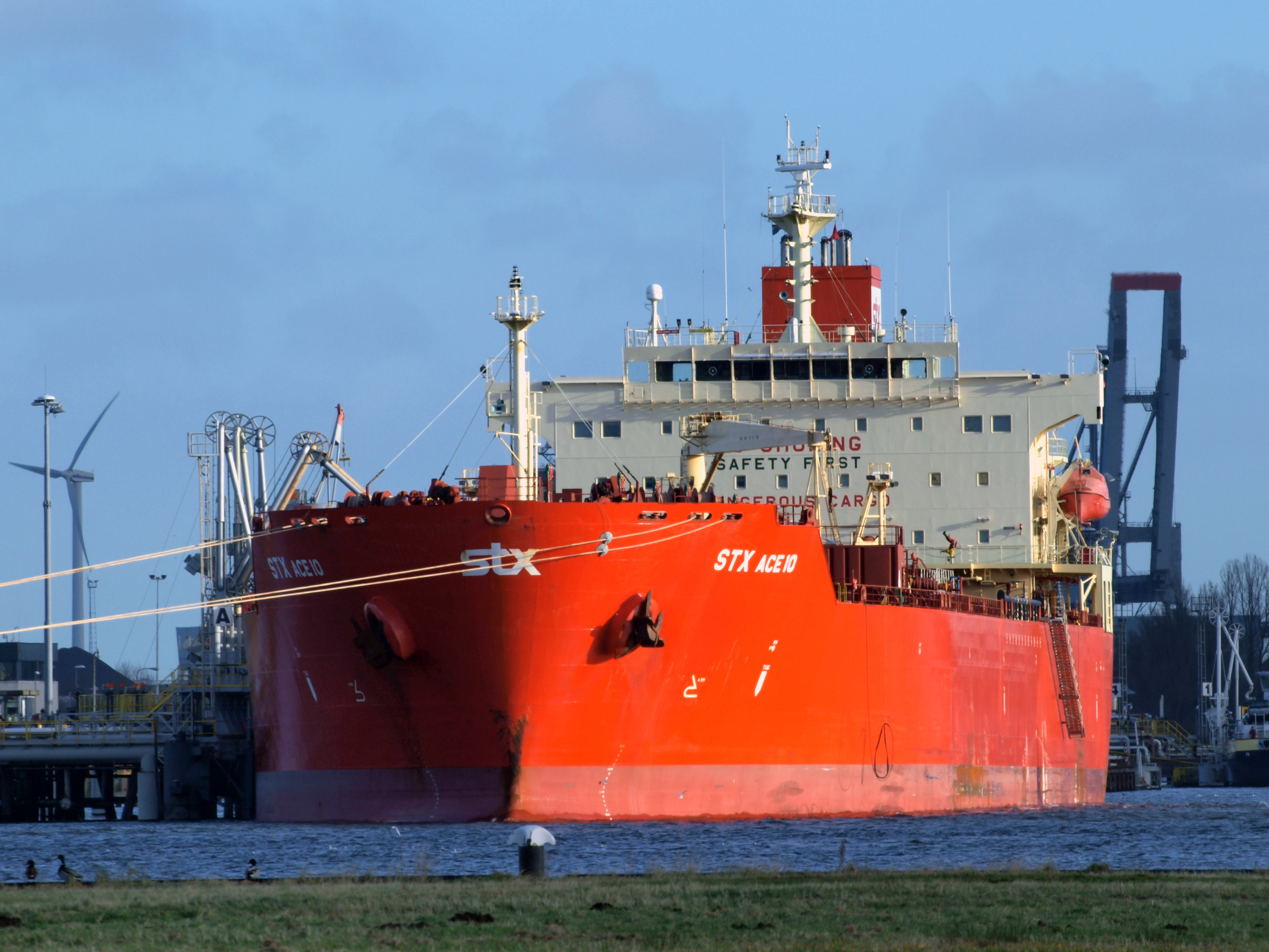 Ship photographed at the Port of Amsterdam, The Netherlands.